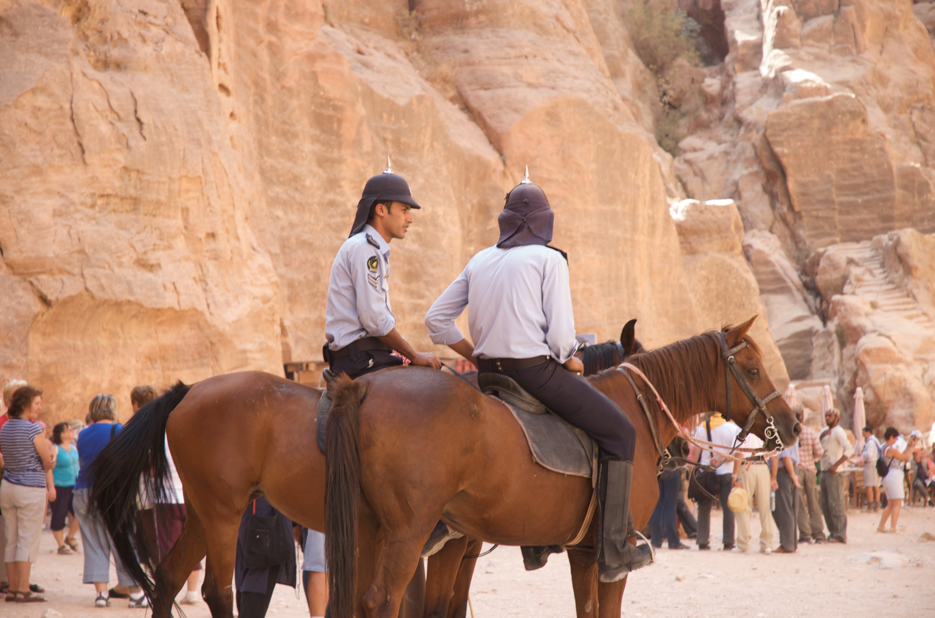 Polci horses in Egypt